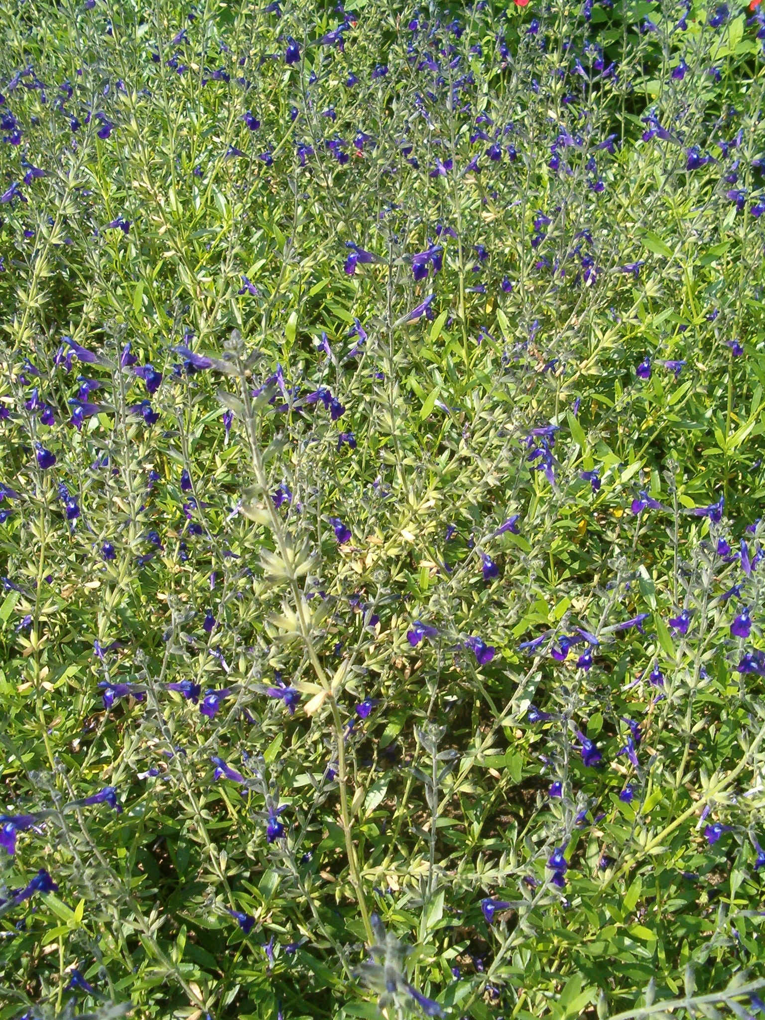 At Botanical Gardens Berlin-Dahlem Species Salvia coahuilensis